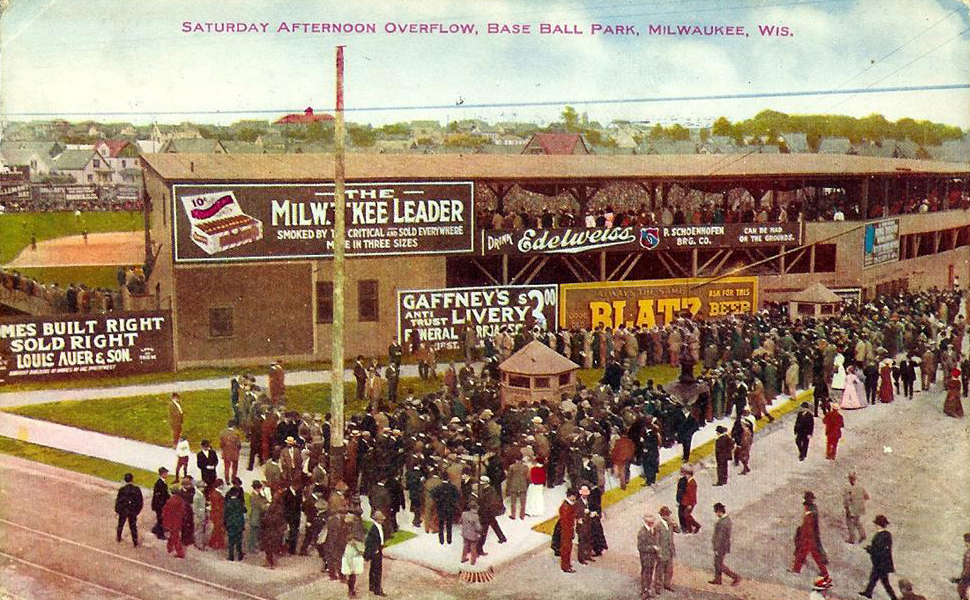 Hand-tinted postcard featuring crowd outside Borchert Field, now-demolished ballpark in Milwaukee, Wisconsin